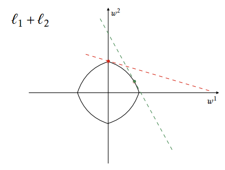 Elastic Net